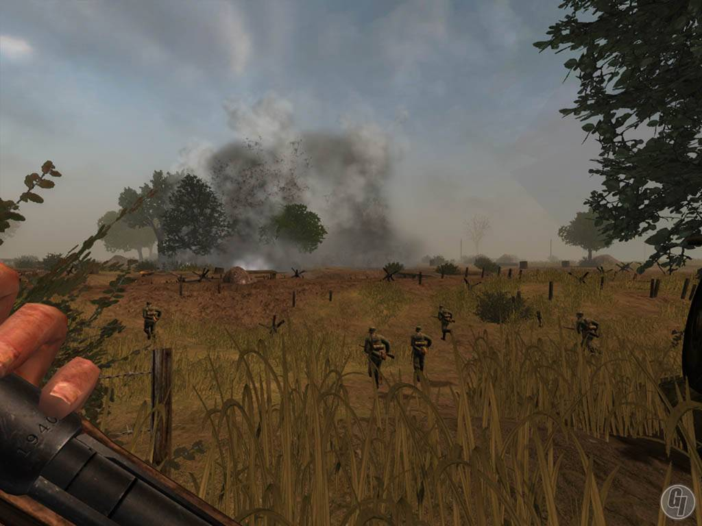 Red Orchestra action scene